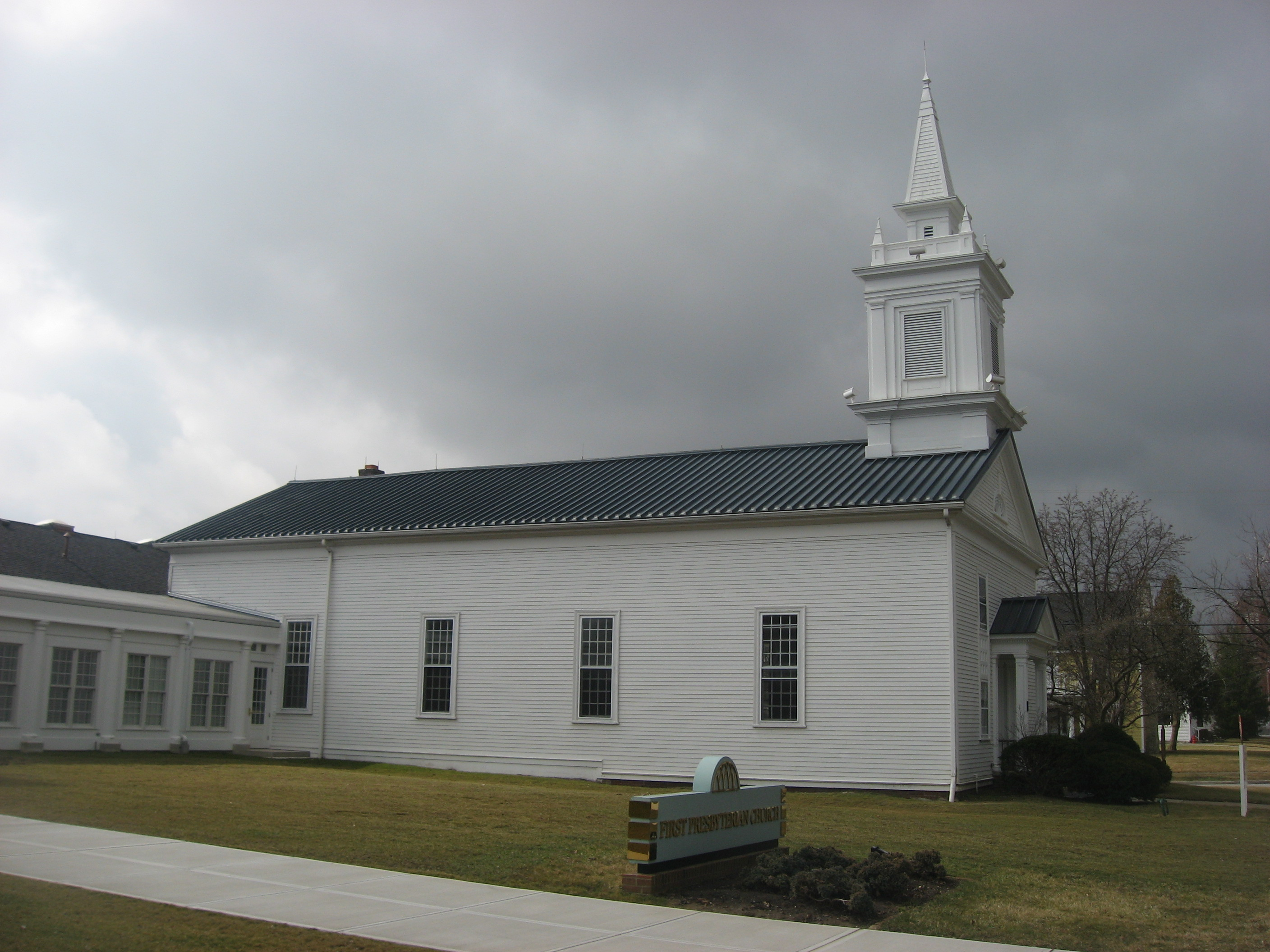 Eastern side and front of the First Presbyterian Church of Maumee Chapel, located at 200 E. Broadway in Maumee, Ohio, United States. Built in 1837, it is listed on the National Register of Historic Places.